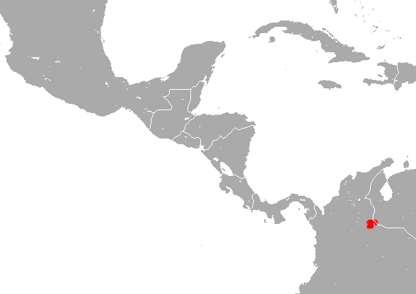 Tama Small-eared Shrew (Cryptotis tamensis) range